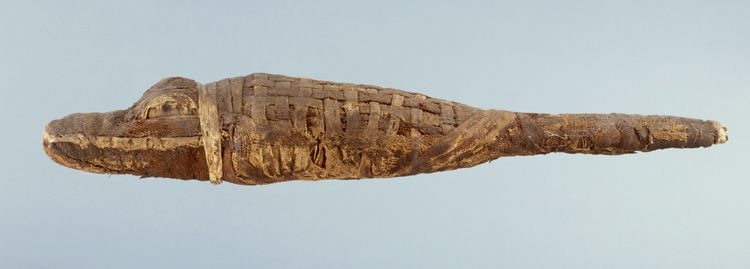 Mummy of a crocodile